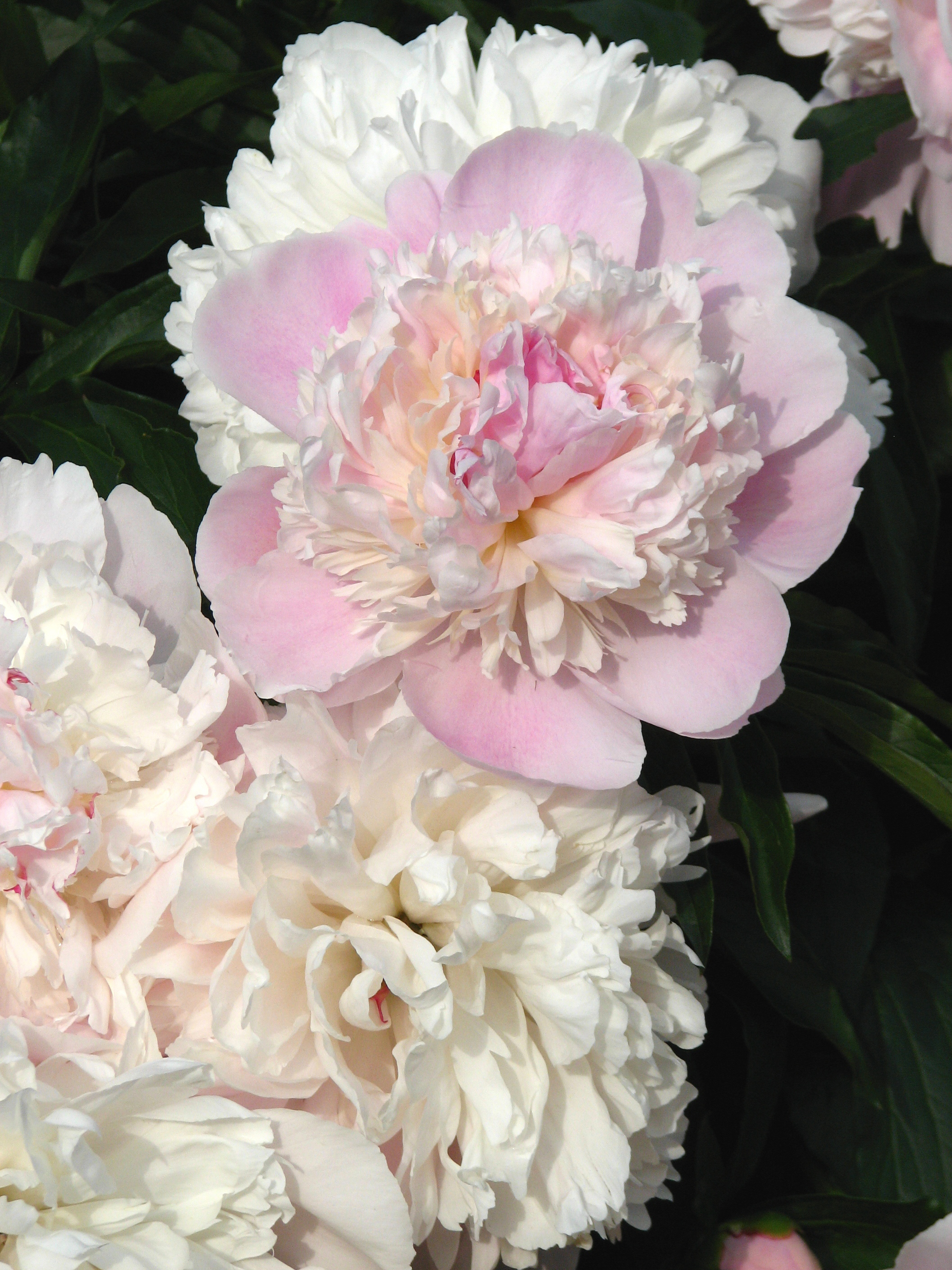 Paeonia lactiflora 'Maya Plisetskaya'. Originator: Sosnovets, 1963. From the collection of the Botanical Garden of Moscow State University (main area on the Sparrow Hills).